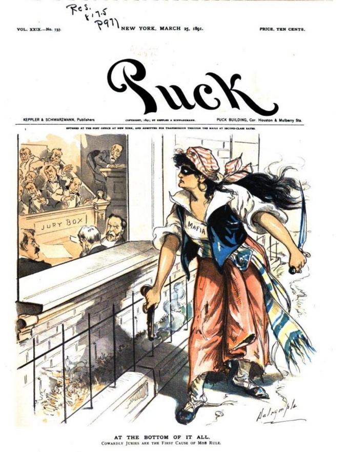 Cartoon that appeared in Puck on March 25, 1891. The caption reads: AT THE BOTTOM OF IT ALL - Cowardly Juries are the First Cause of Mob Rule.